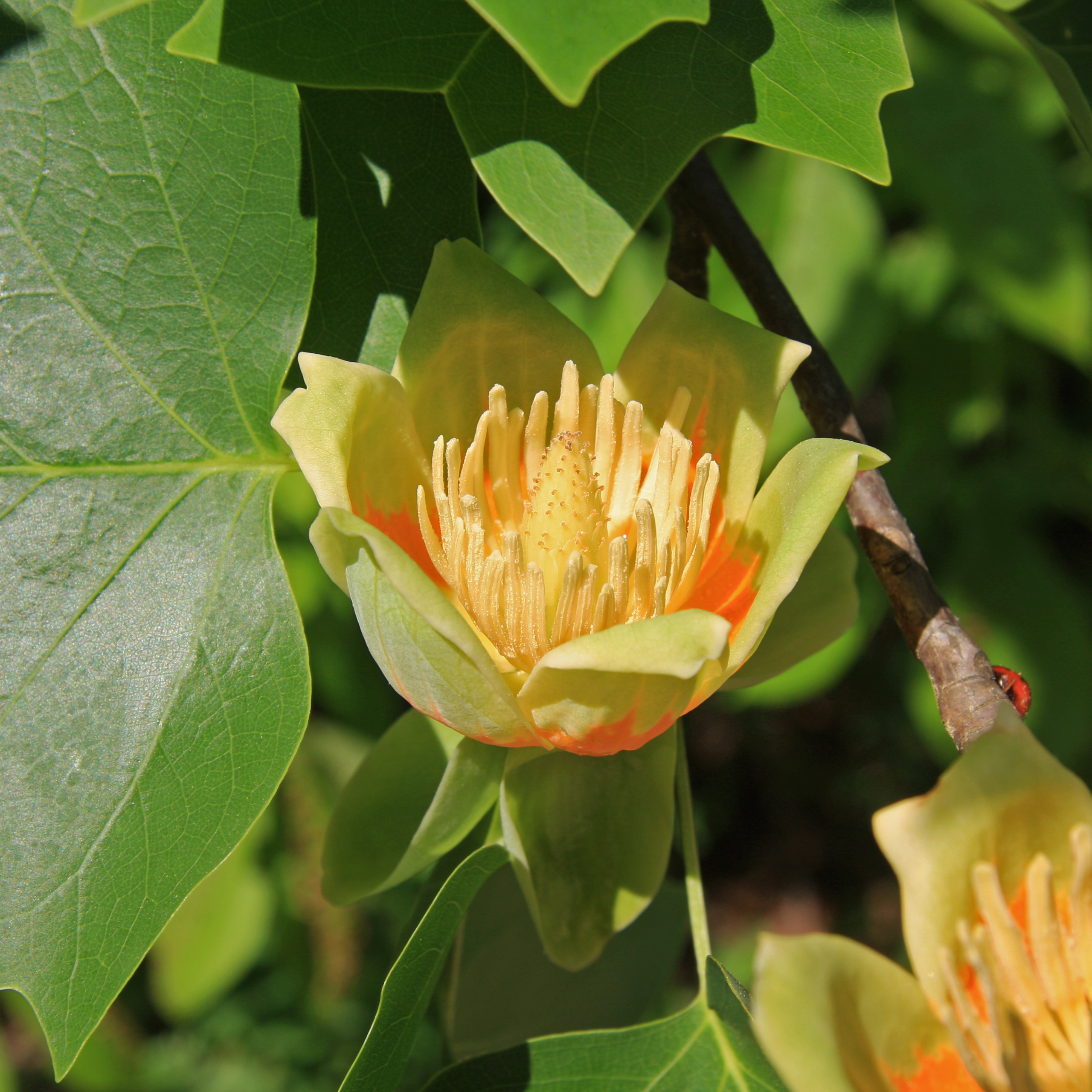 Tulip poplar, or yellow poplar, (Liriodendron tulipifera), closeup looking into flower on leafy branch. Shows orange, yellow, and pale green coloring, reflexed sepals, large pistil, and numerous stamens. In woods on Duke University campus near edge of Duke Forest, Durham North Carolina USA.